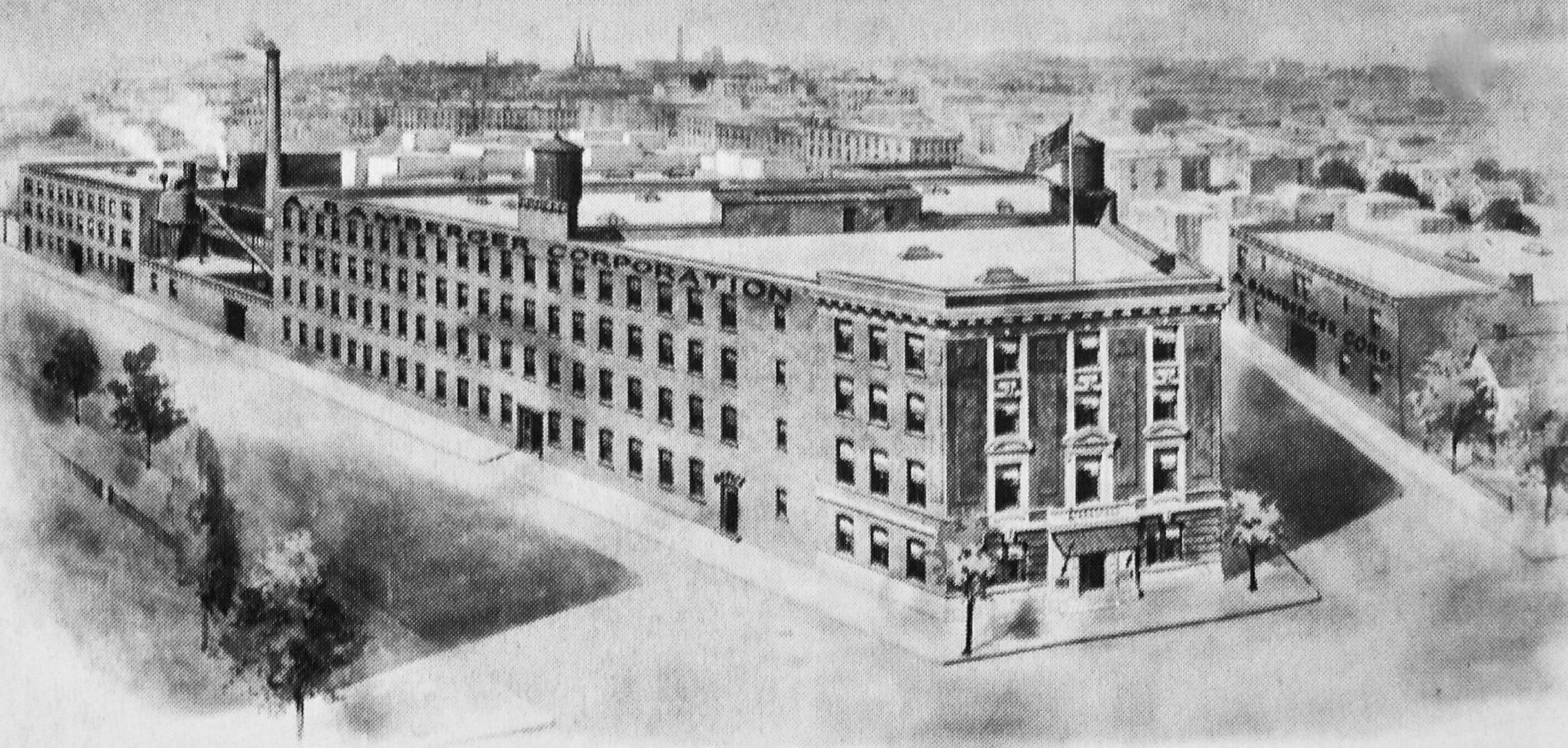 A. Bamberger Corporation, Brooklyn, New York, USA